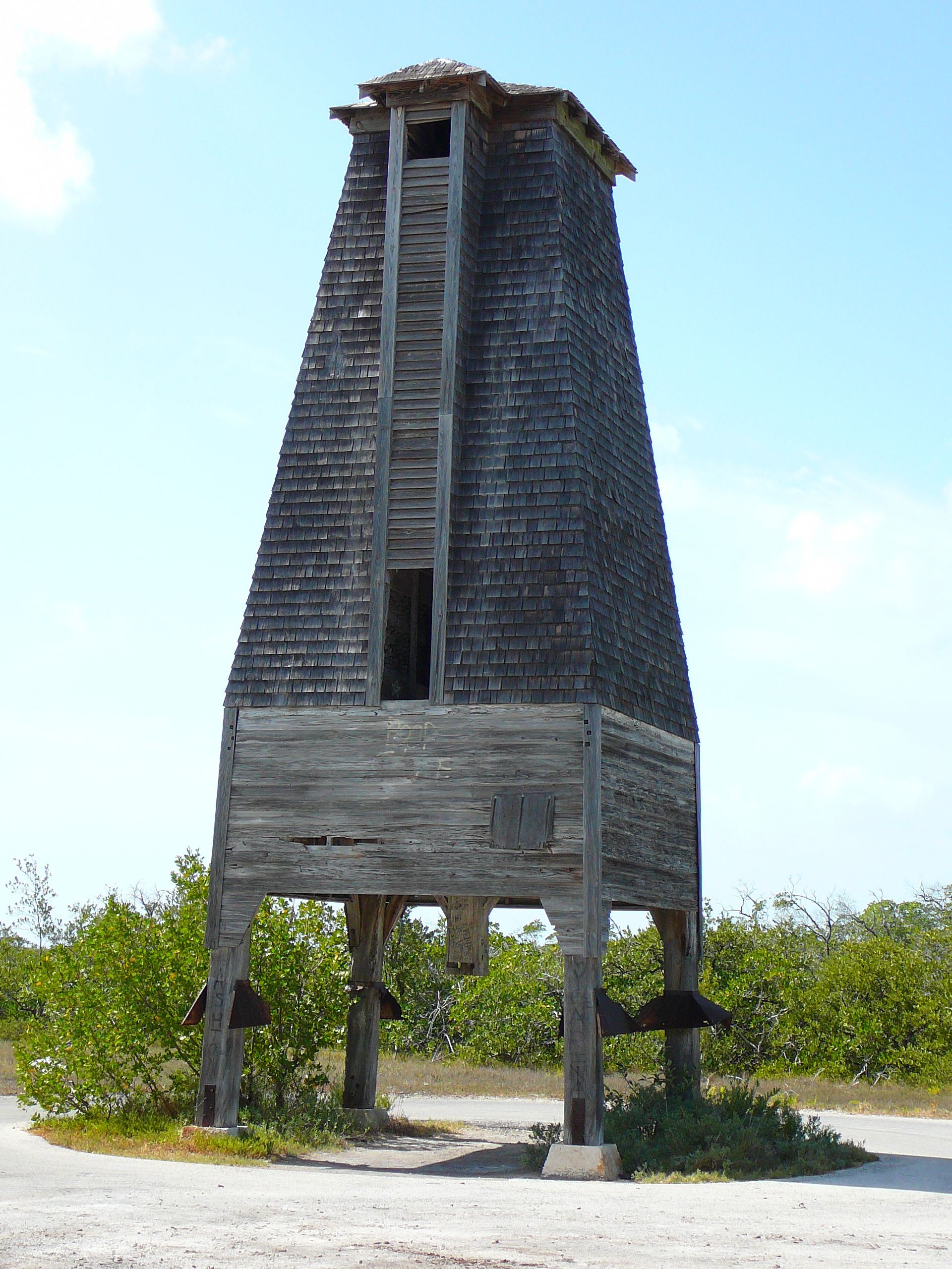 Digital photo taken by Marc Averette. Historic bat tower on Lower Sugarloaf Key, Florida. Marc Averette 18:45, 3 November 2006 (UTC)